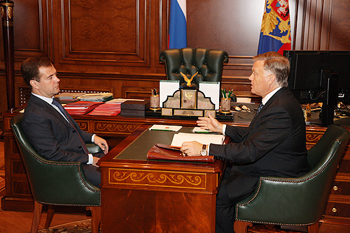 GORKI, MOSCOW REGION. With President of Russian Railways Company Vladimir Yakunin.